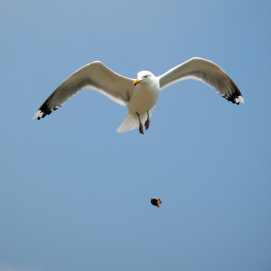 Just spent the week up on Cape Cod in Massachusetts. Some pretty well-fed seagulls (American Herring Gull Larus smithsonianus) were having a blast picking up crabs, clams and other tasty things from the ocean and dropping them on rocks or nearby parking lots to break them open. if i was smart i would have run underneath them with a butterfly net and caught my dinner for the night...